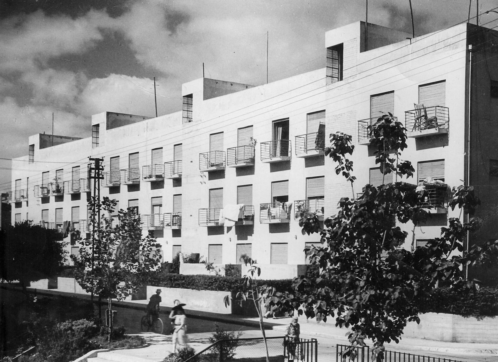 Meonot Ovdim in Tel Aviv, 1930s, by architect Arieh Sharon. Loaded with permission from the Sharon estate by his grandson, Ariel Aloni